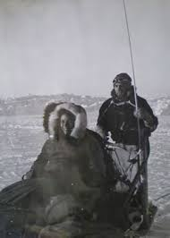 Photograph of Pan Am stewardess Patricia Hepinstall on a sledge at the US McMurdo Station, Antarctica. She was one of the first two women to fly to Antarctica.